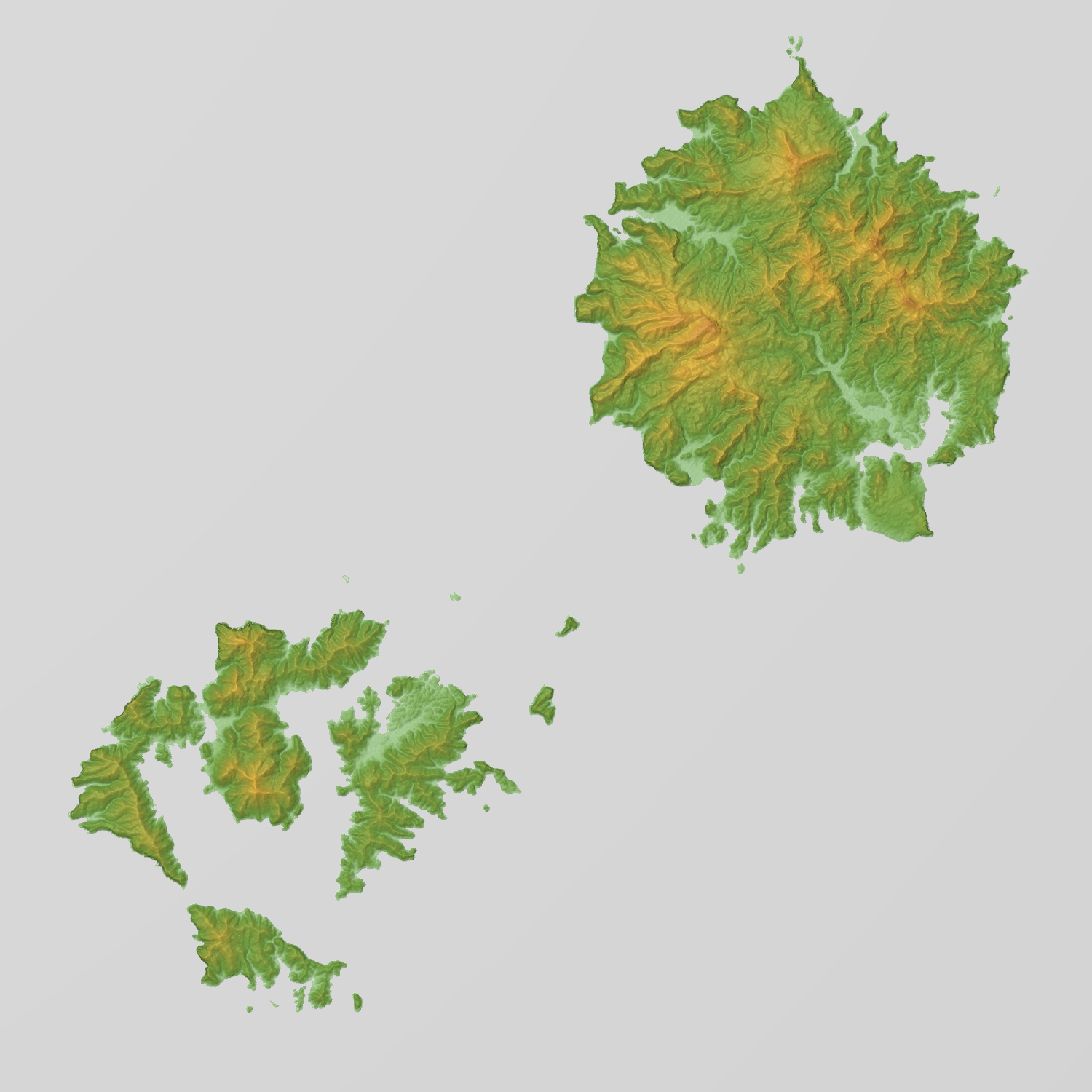 Oki Islands in Shimane Prefecture, Japan.